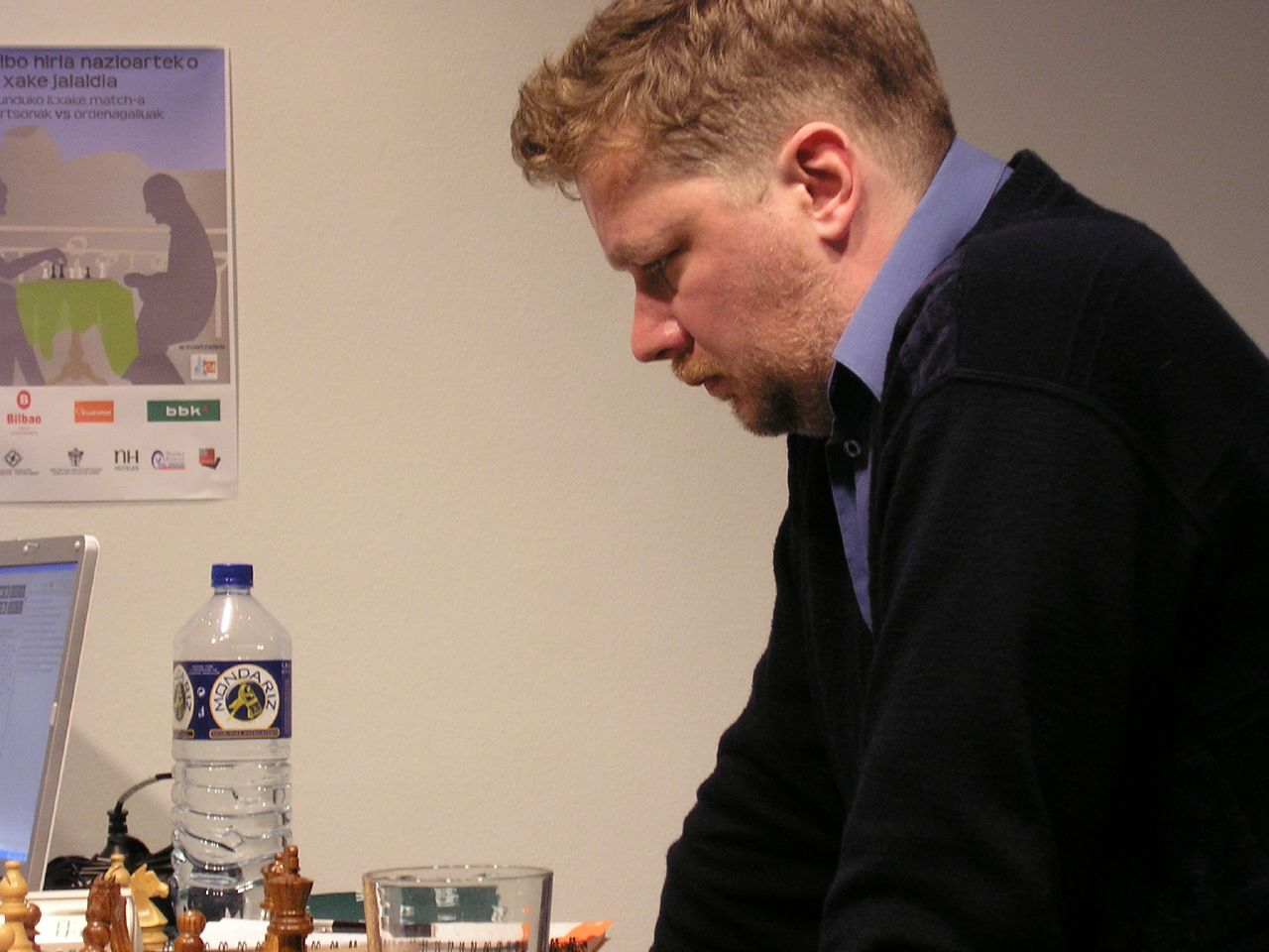 GM Alexander Khalifman (Russia)